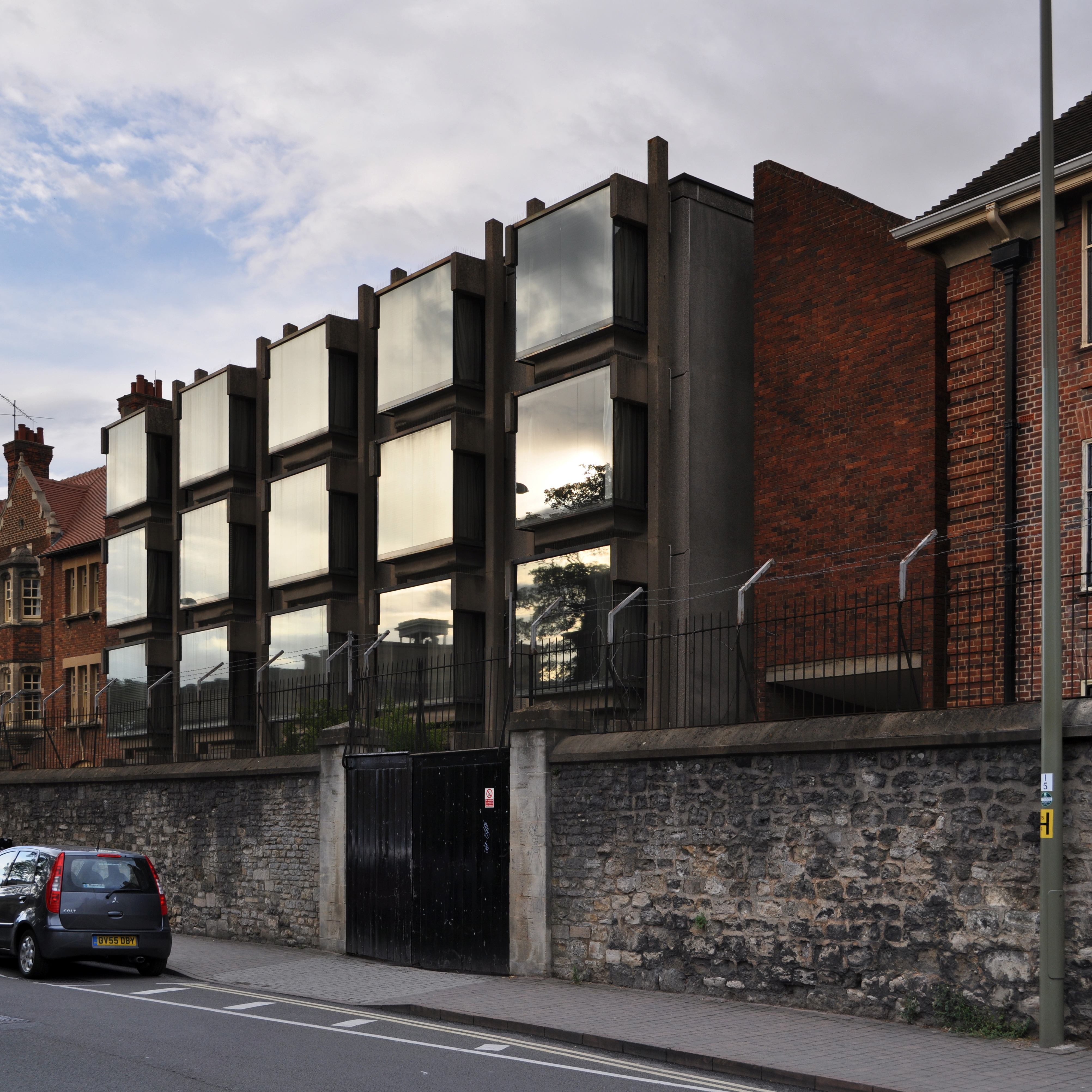 Wolfson building, Somerville College.